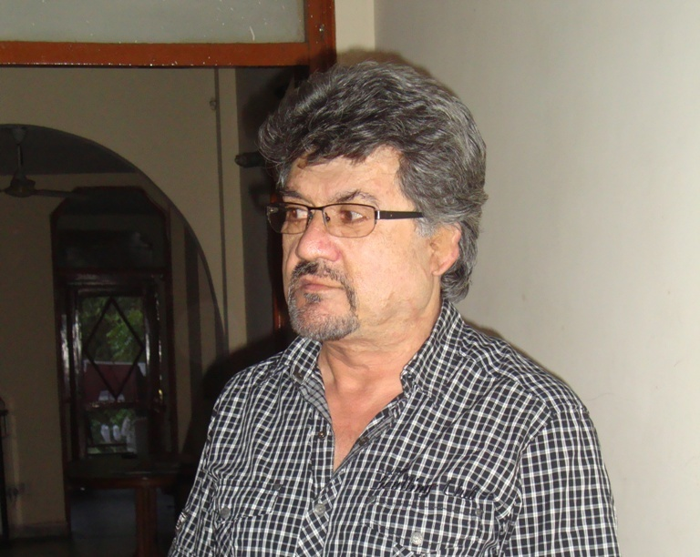 Razaq Mamoon in Delhi